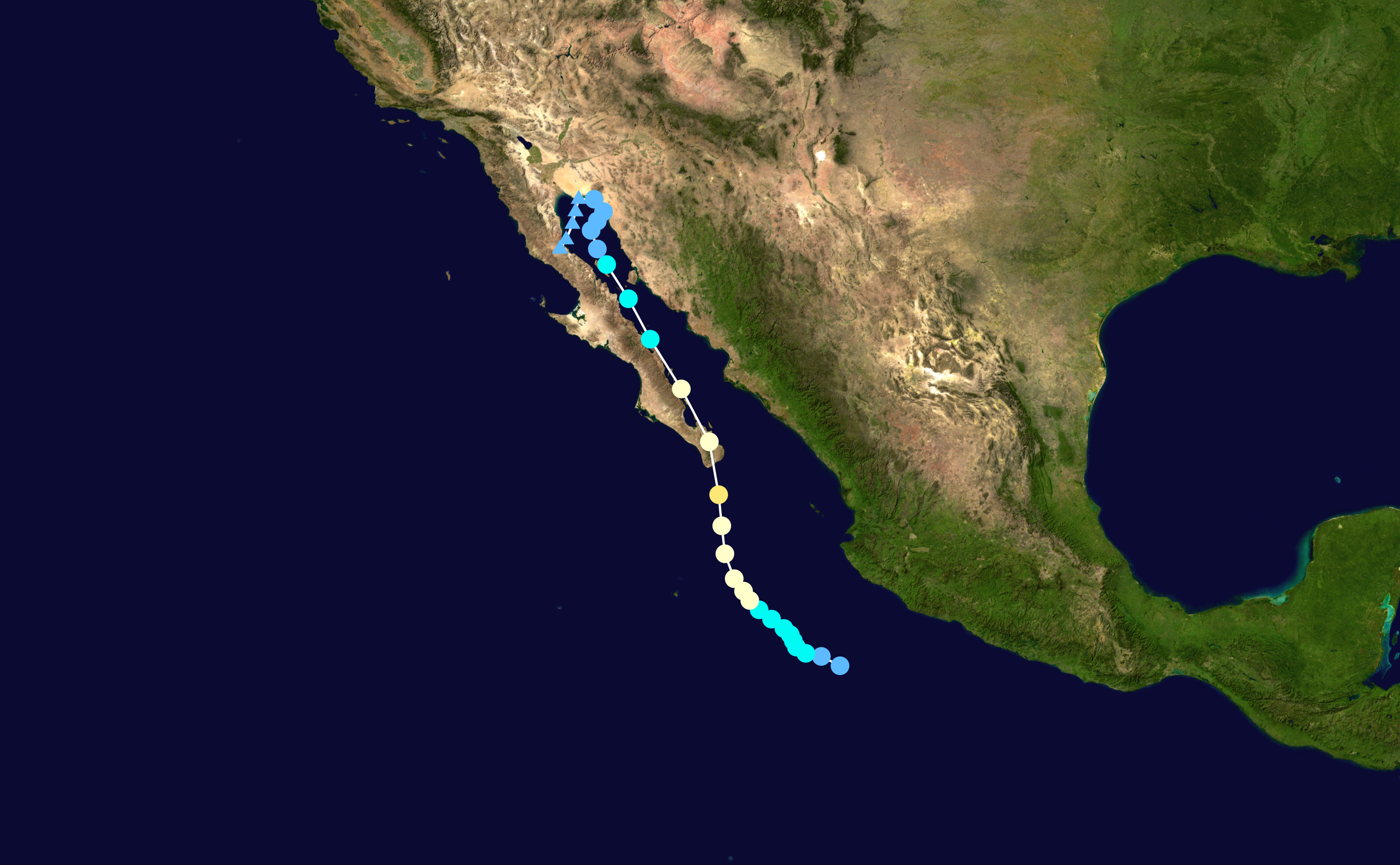 Hurricane Marty (2003) track. Uses the color scheme from the Saffir-Simpson Hurricane Scale.